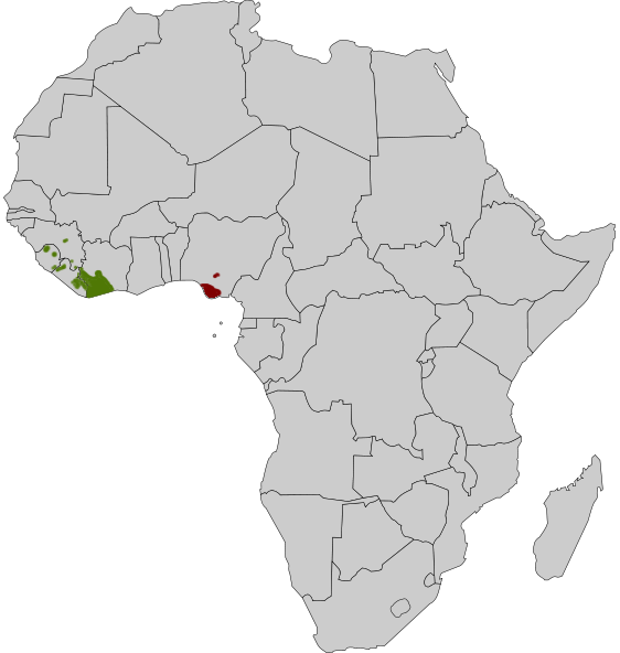 Area of Choeropsis liberiensis or Hexaprotodon liberiensis (red = extinct)